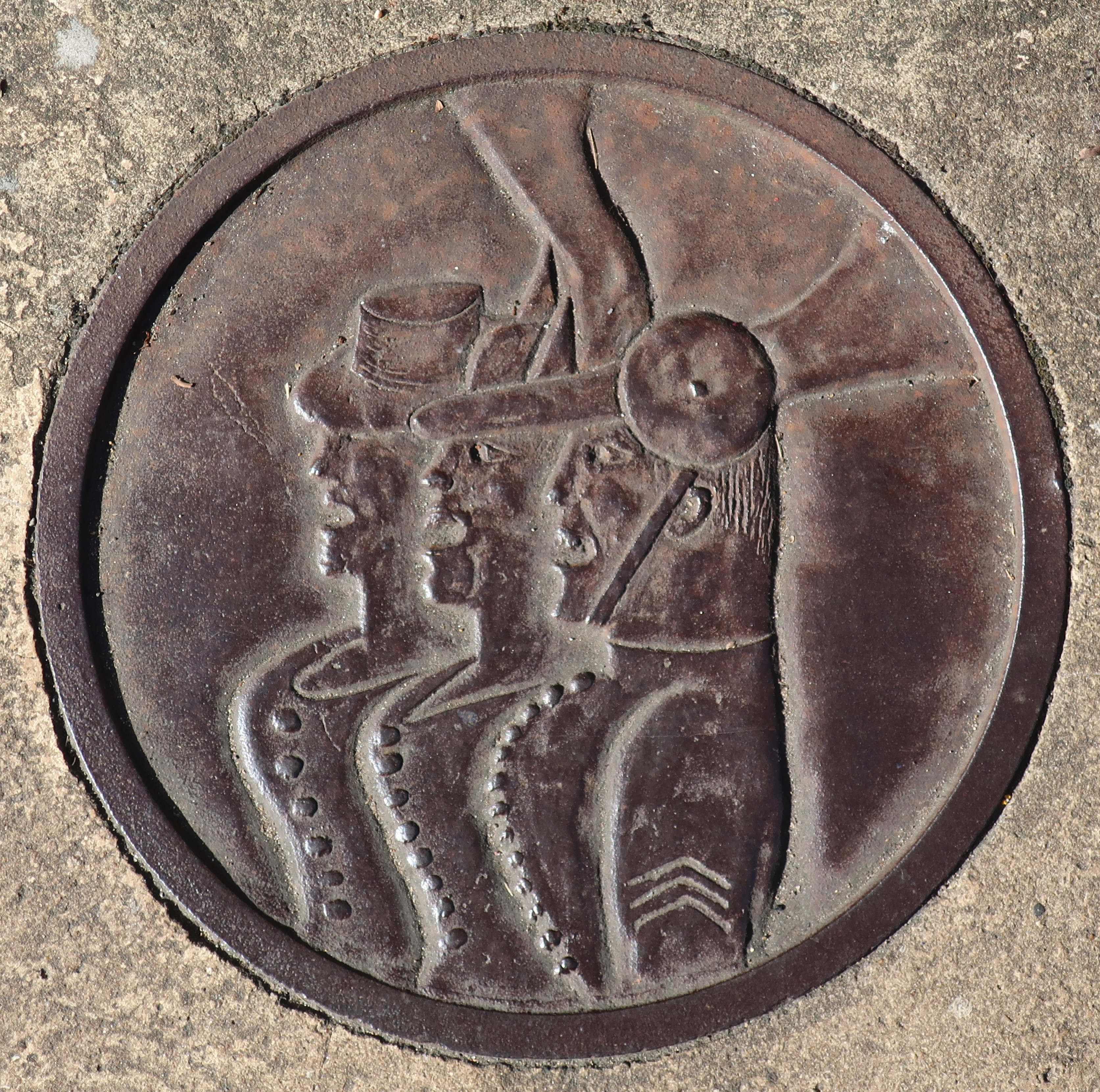 Cast-iron roundel set into the pavement outside 32 Elder Street, Spitalfields, London (former home of the artist Mark Gertler), depicting a detail from Gertler's painting, Merry-Go-Round (1916): one of a series of 25 roundels commissioned from sculptor Keith Bowler by Bethnal Green City Challenge in 1995 to celebrate Spitalfields heritage.